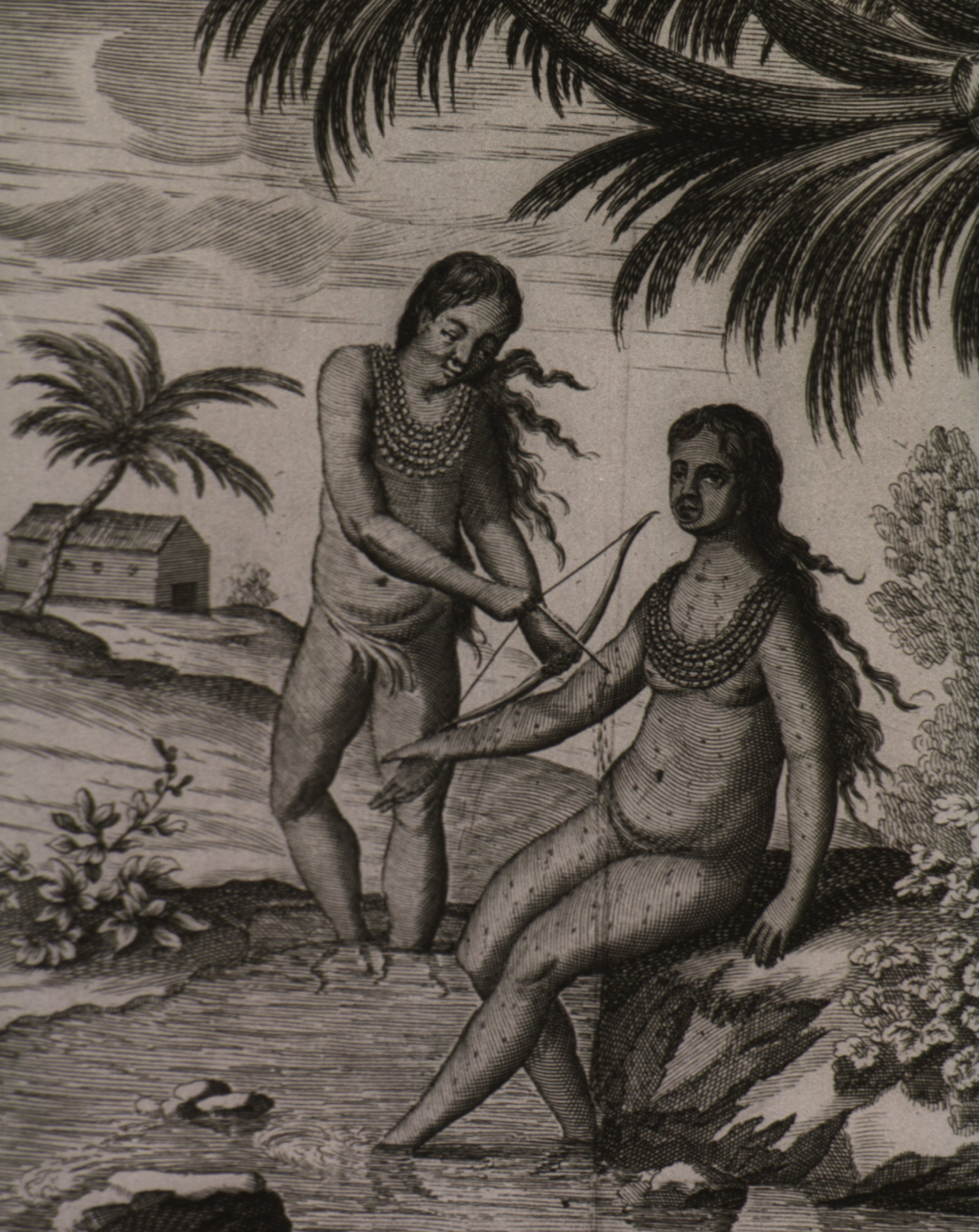 A method of bloodletting among Native Americans